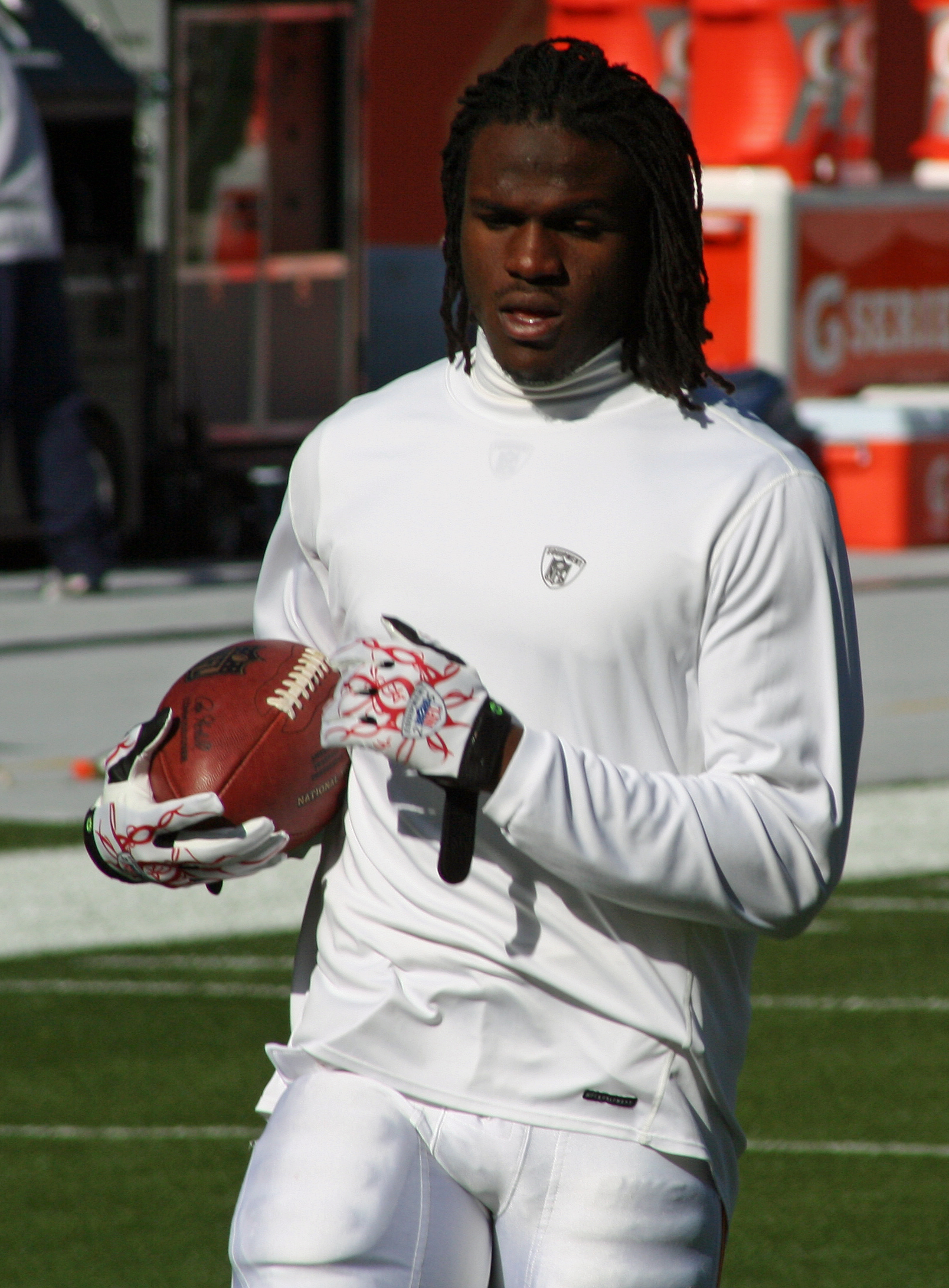 Jamaal Charles, a player on the Kansas City Chiefs American football team.